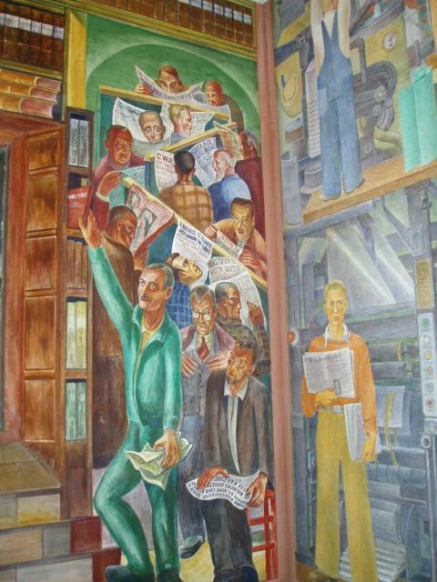 Coit Tower Murals with part of The Library by Bernard Zakheim